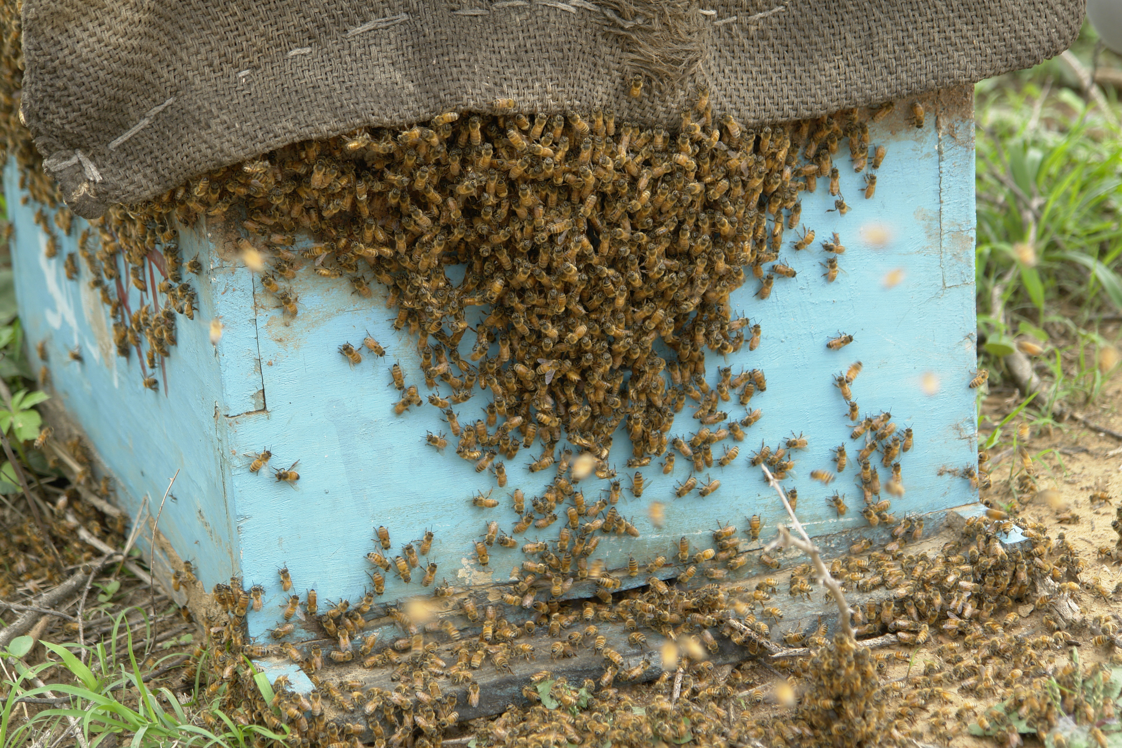 Bee overpopulation, Morena district, Chambal, India.